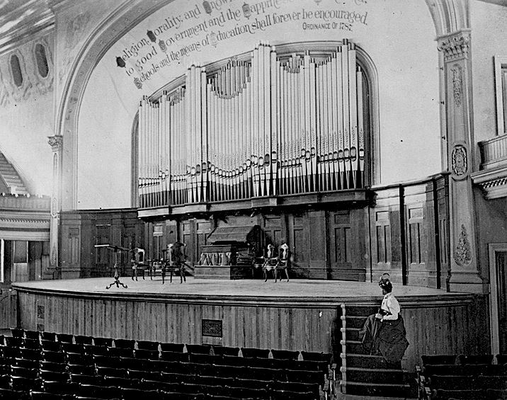 Chicago's World Fair 1893 Farrand & Votey organ reinstalled at University of Michigan University Hall as the Frieze Memorial Organ